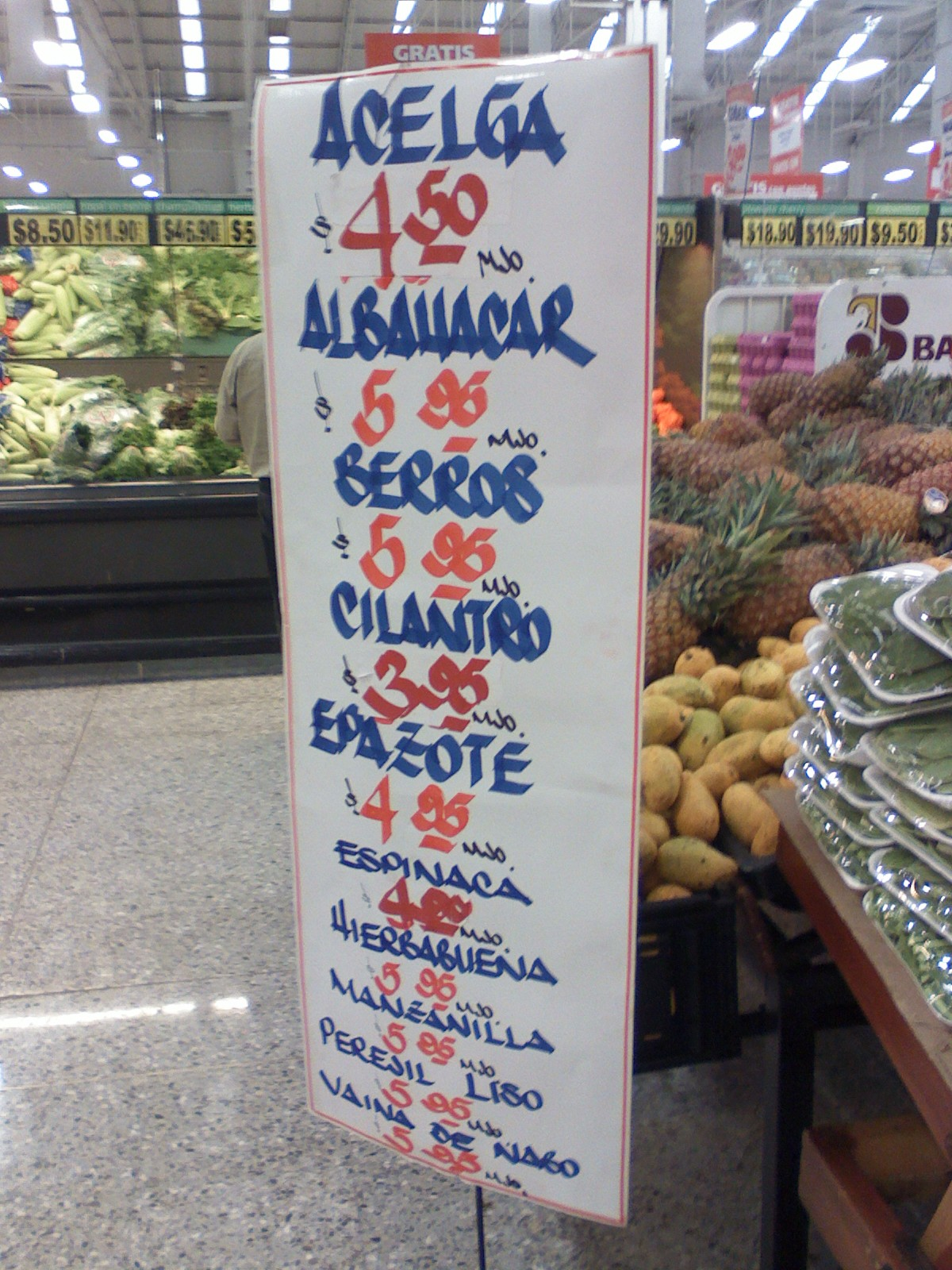 Example of paragoge, or addition of a phoneme at the end of a word in a Mexican supermarket